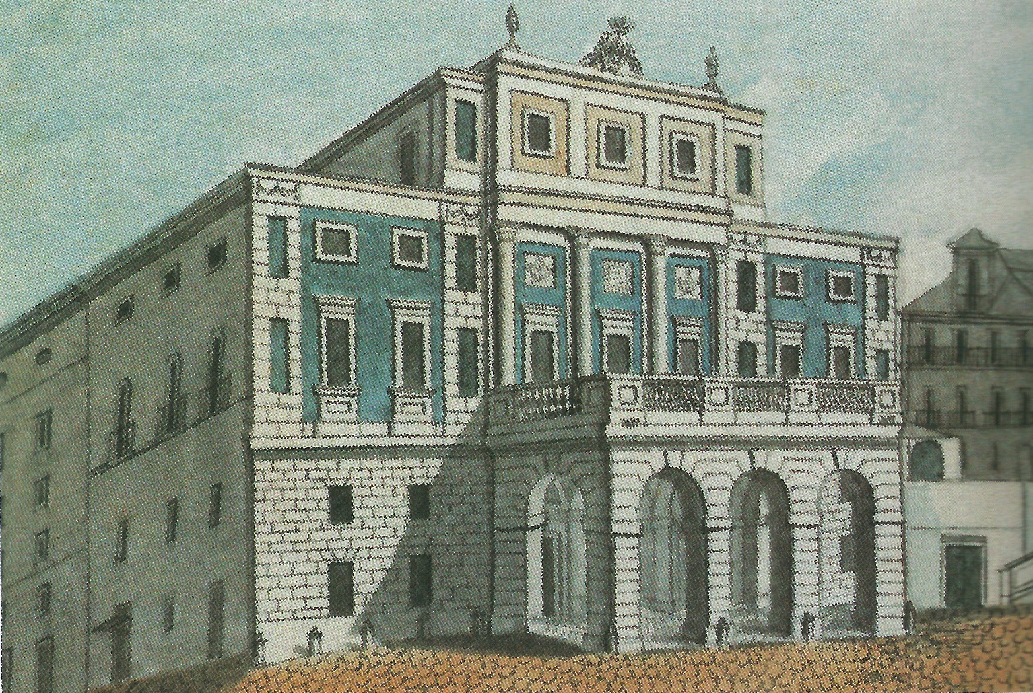 O Theatro Real de São Carlos (St. Charles Royal Theatre, today, Teatro Nacional de São Carlos), on the first half of the 19th century.